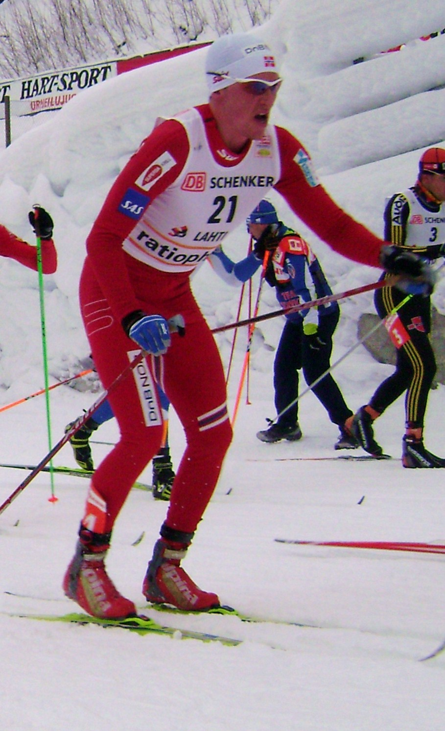 Norwegian cross country skier Roger Aa Djupvik at Lahti Ski Games 2010.